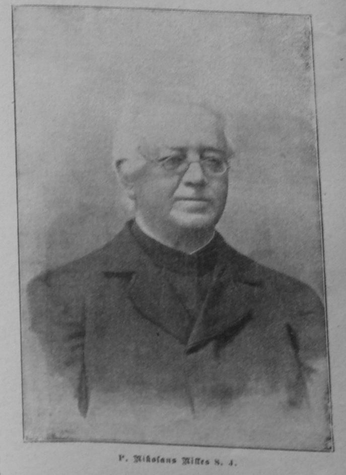 Nikolaus Nilles (1828-1907), Canonist, picture in a obituary 1907